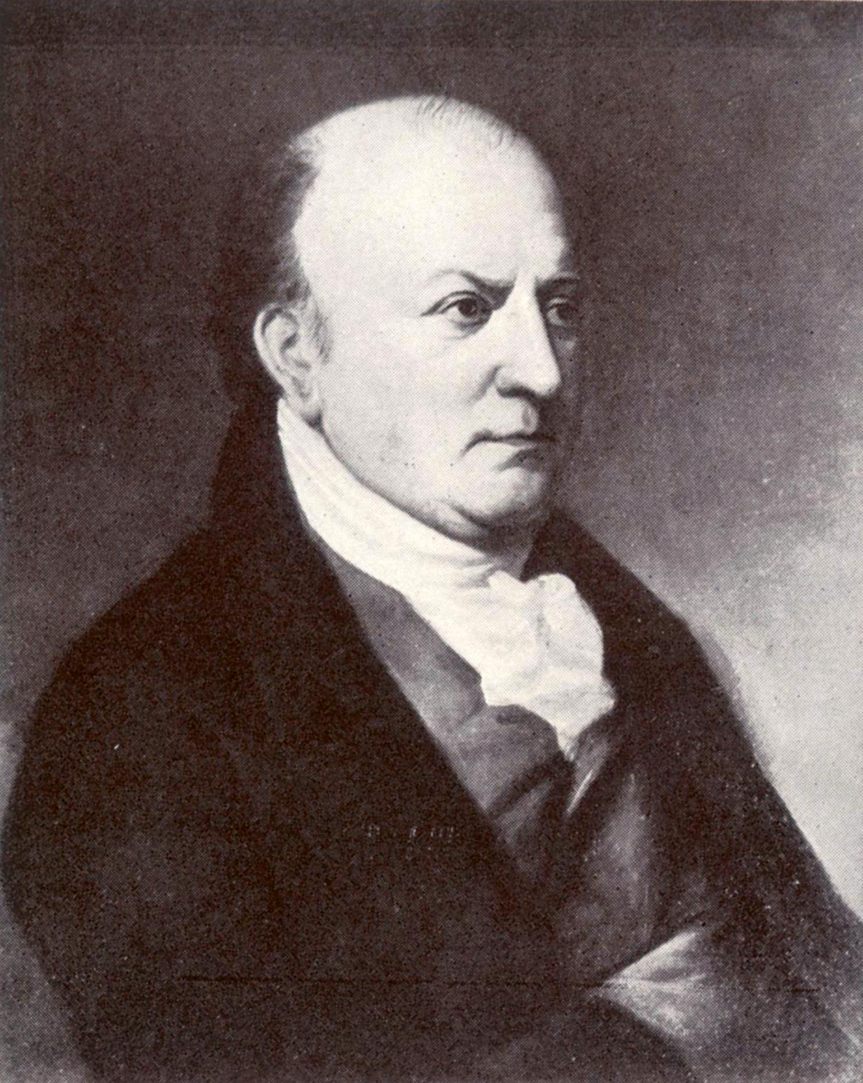 Thomas Cooper (1759 -1839), faculty, portrait